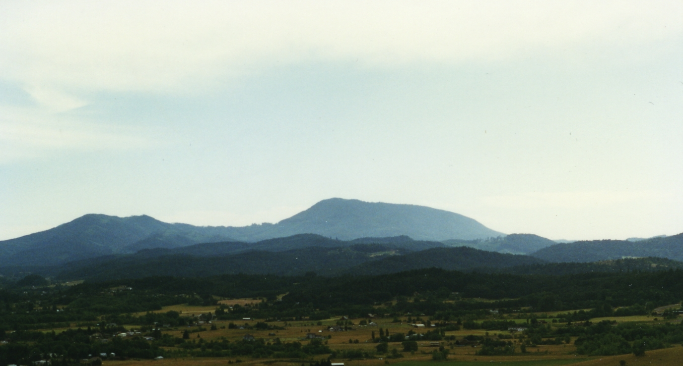 Central Oregon Coast Range in 1997ish from Bald Hill west of Corvallis.